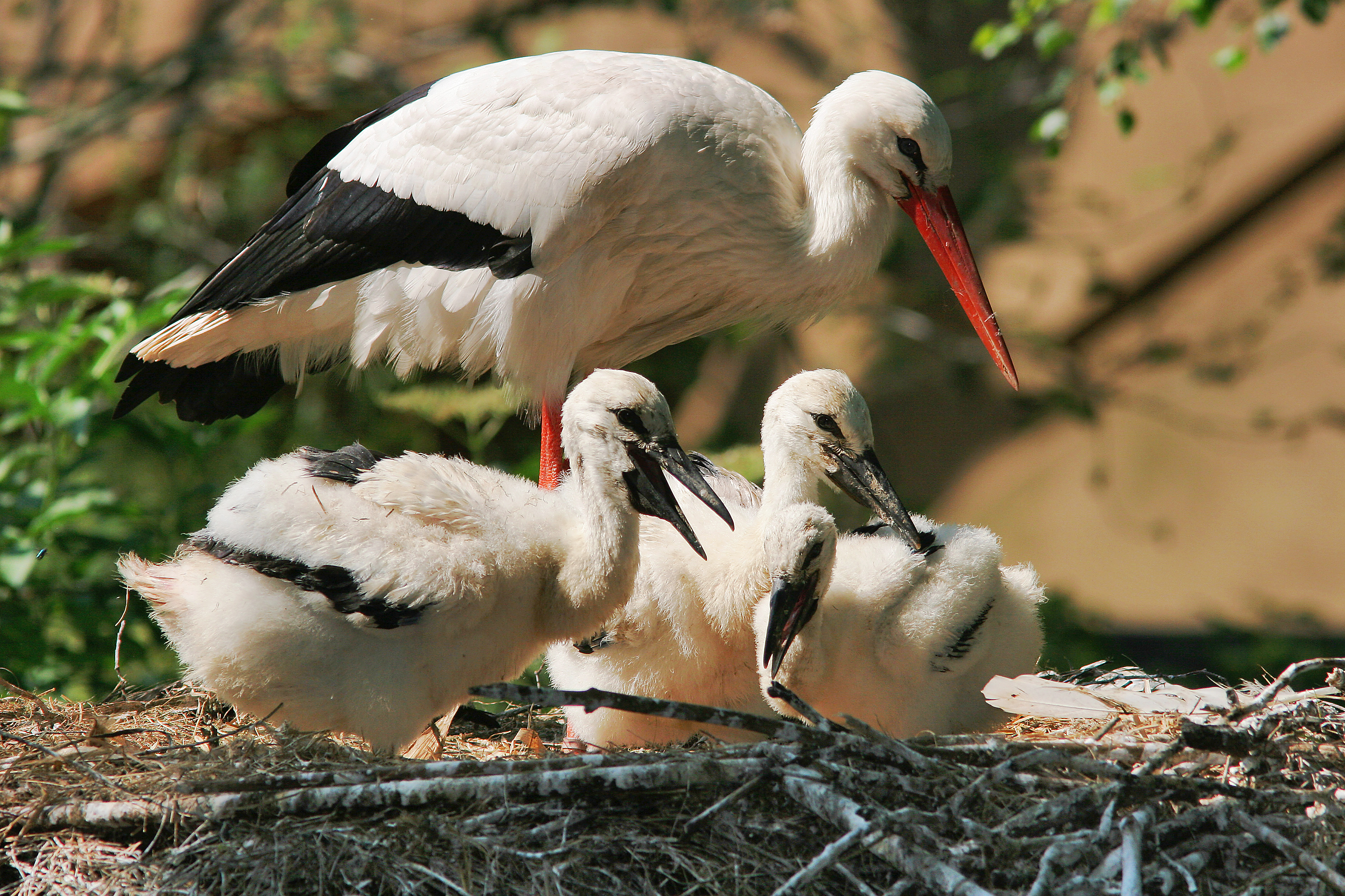 White Storks at Artis Zoo, Netherlands. Parent with three chicks, one small and two bigger chicks.